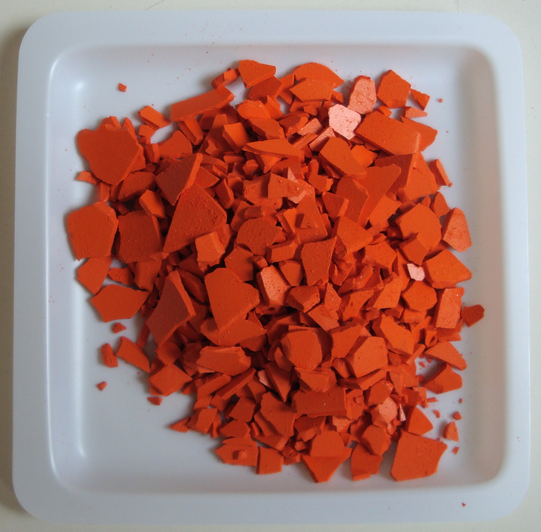 Powder Coatings Chips